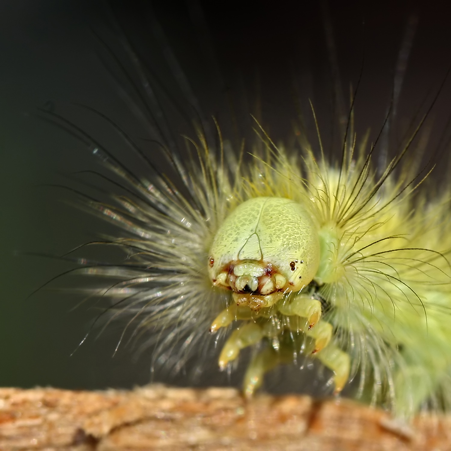 Calliteara pudibunda - head of the caterpillar